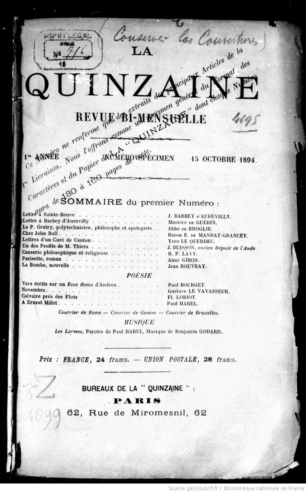 Cover page of the first numer of La Quinzaine